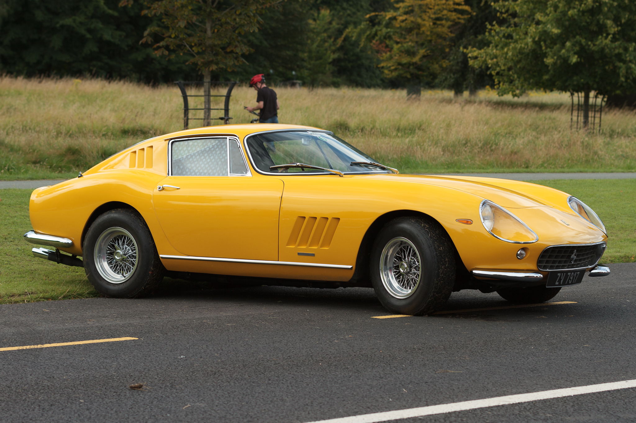 1965 Ferrari 275. What an amazing car!